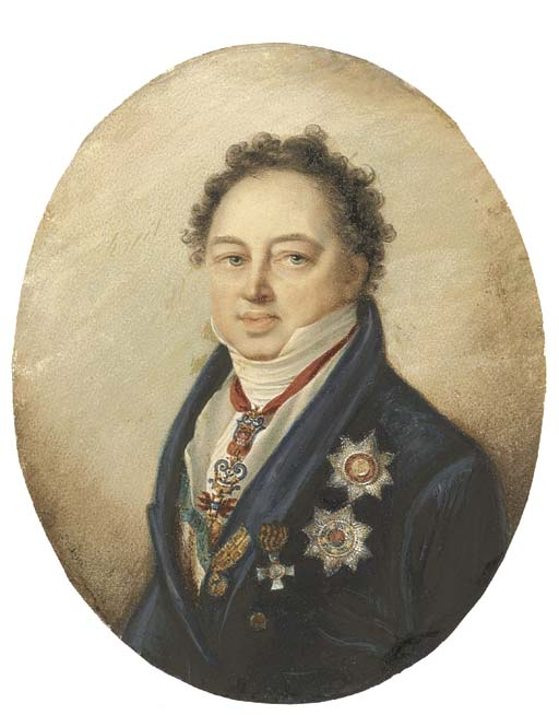 Count Dmitry Pavlovich Tatishchev, facing left in blue coat, white waistcoat and stock, wearing the Spanish Order of the Golden Fleece suspended from a red ribbon about his neck, the blue sash and breast star of the Royal Hungarian Order of St. Stephen, the breast stars of the Russian Order of St. Alexander Nevskij and the badge of the Imperial Russian Order of St. George and another war medal